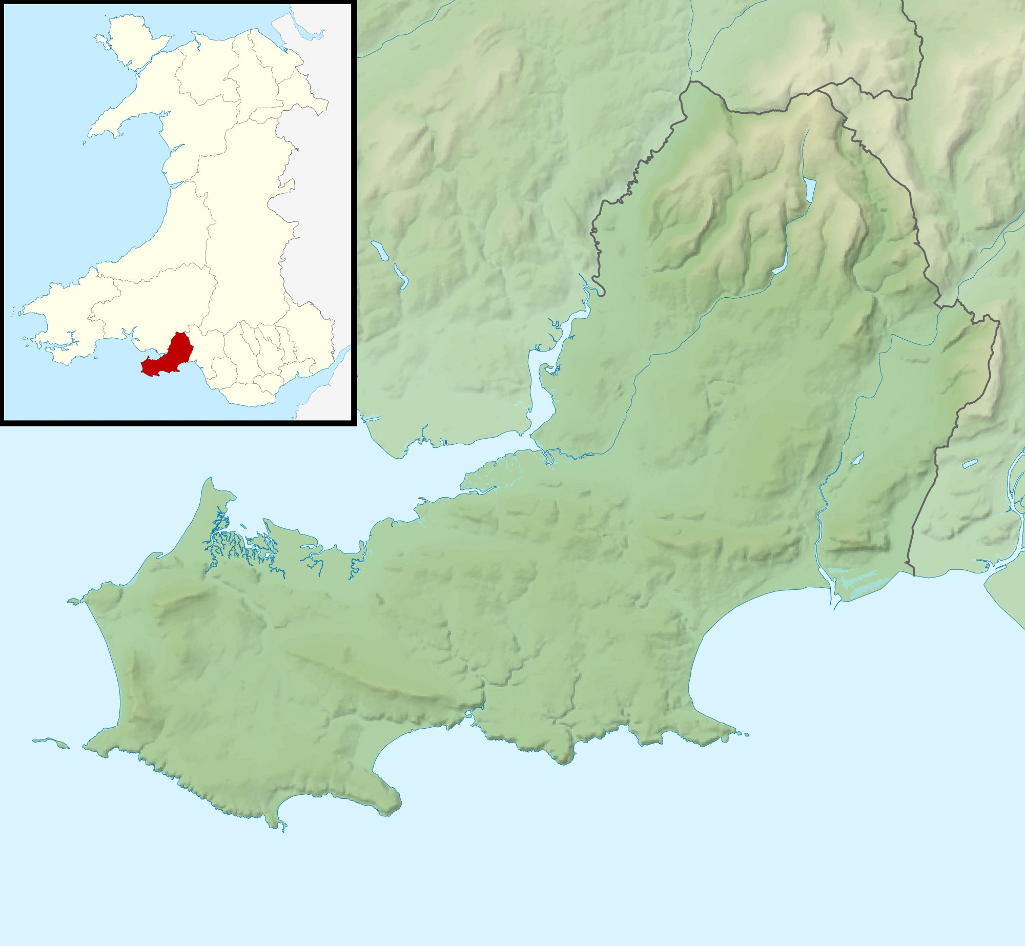 Relief map of Swansea, UK. Equirectangular map projection on WGS 84 datum, with N/S stretched 160% Geographic limits: West: 4.35W East: 3.83W North: 51.80N South: 51.50N